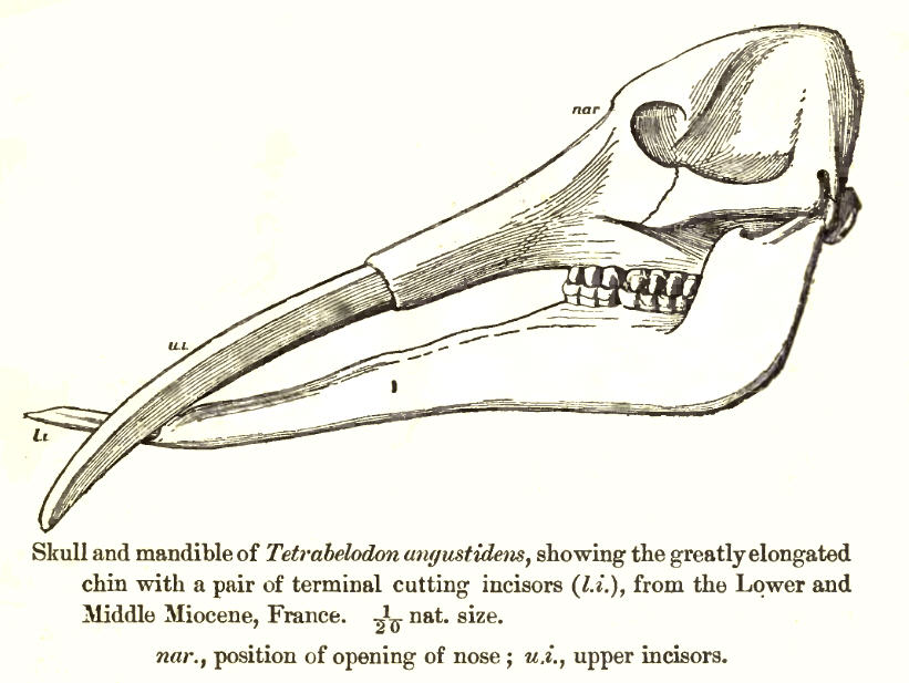 Gomphotherium (syn. Tetrabelodon)